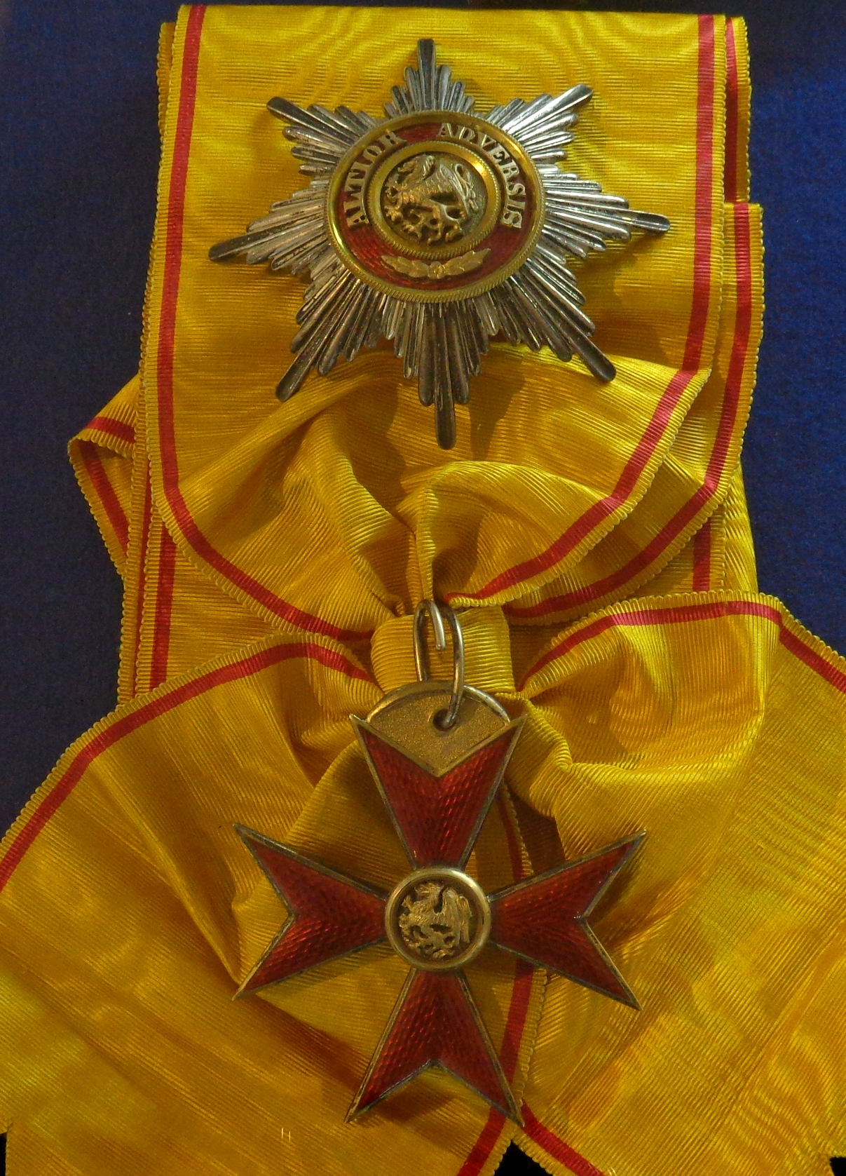 Order of the Griffon, insignias of Grand Cross, 1890-1900. Grand Duchy of Mecklenburg-Schwerin. The exhibition of the Tallinn Museum of Orders of Knighthood, Estonia.